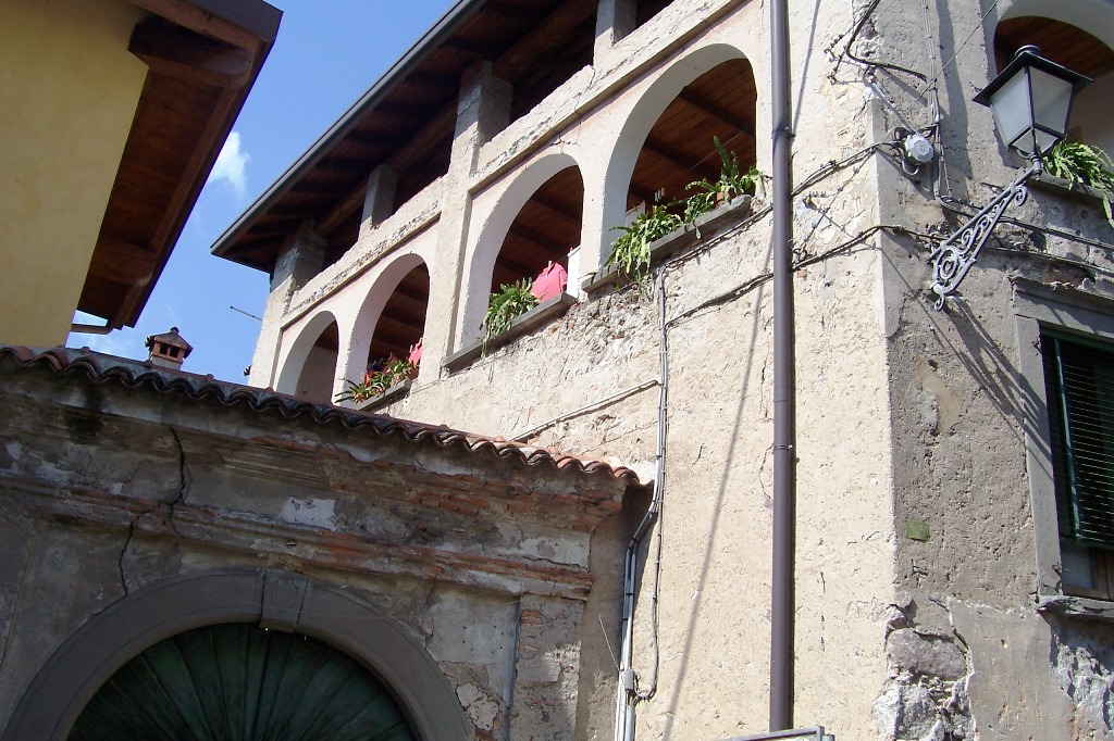 House, Artogne, Val Camonica